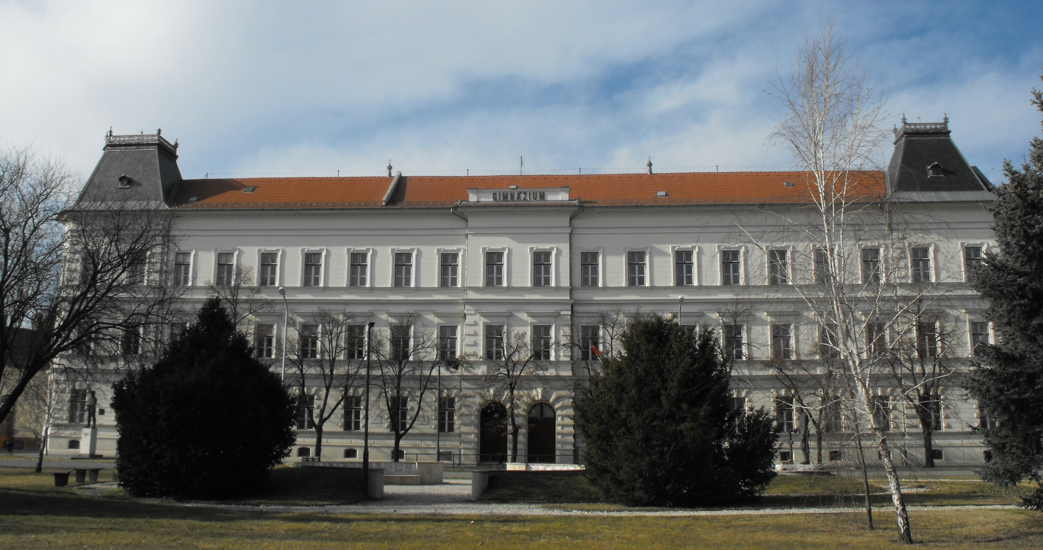 The view of the József Attila Grammar School in Makó, Hungary.